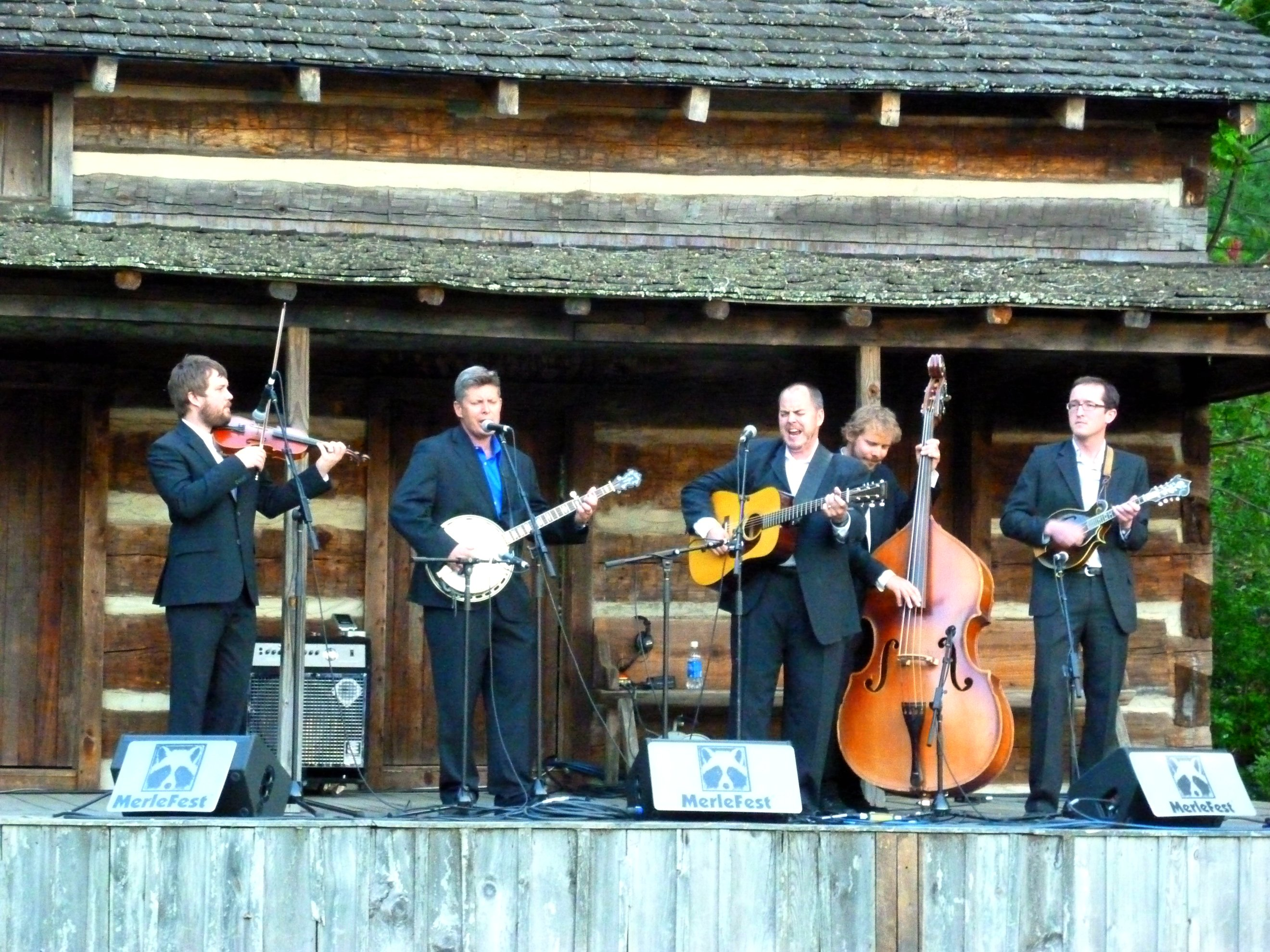 MerleFest 2010 Licensing